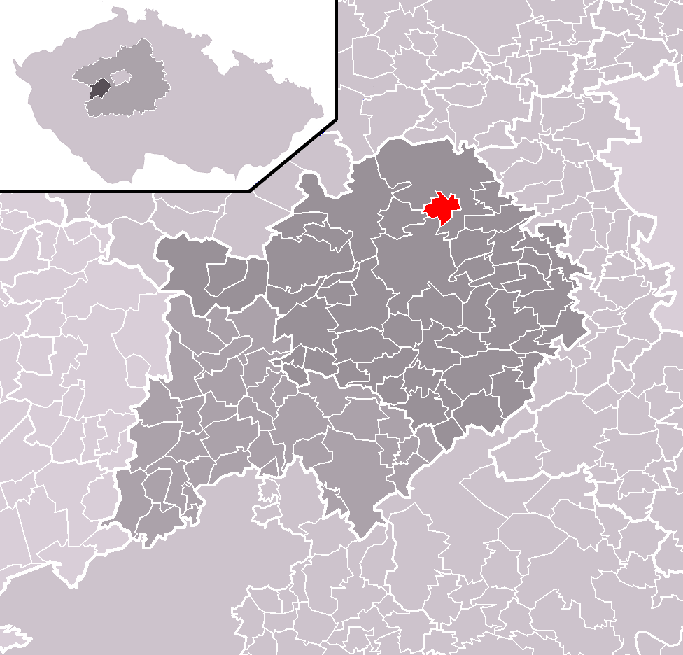 Location of Železnámunicipality within Beroun District and administrative area of Beroun as a Municipality with Extended Competence.